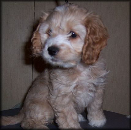 A beautiful Buff Cockapoo Puppy. She is a 2nd generation with 1st generation cockapoo parents. This puppy has a more desirable coat, it starts out fairly wavy and as she gets her adult coat she will curl up a bit more and have a "beard".